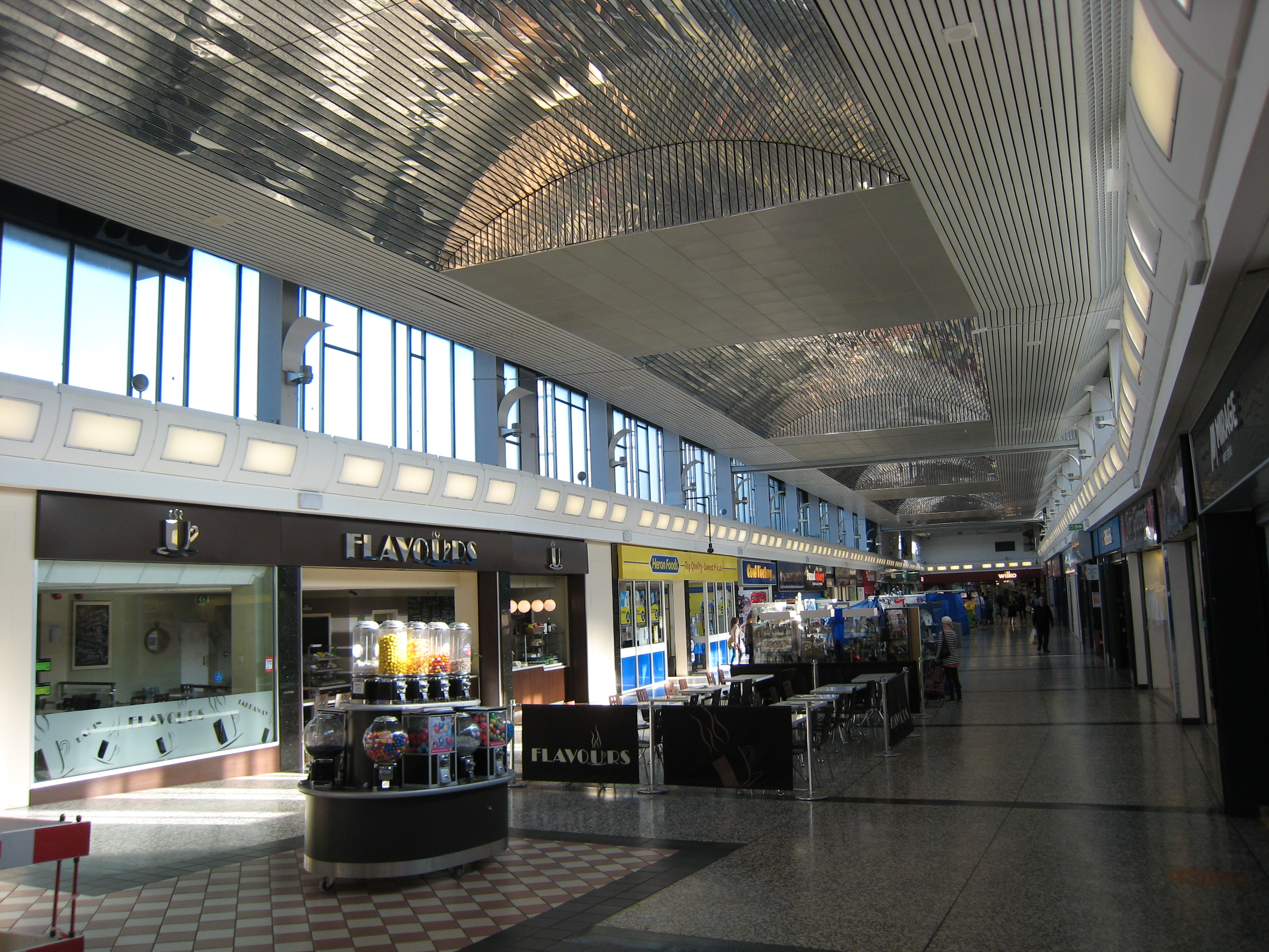 Interior of the Cross Gates shopping centre, Station Road, Leeds LS15. From the West (Station Road) entrance.